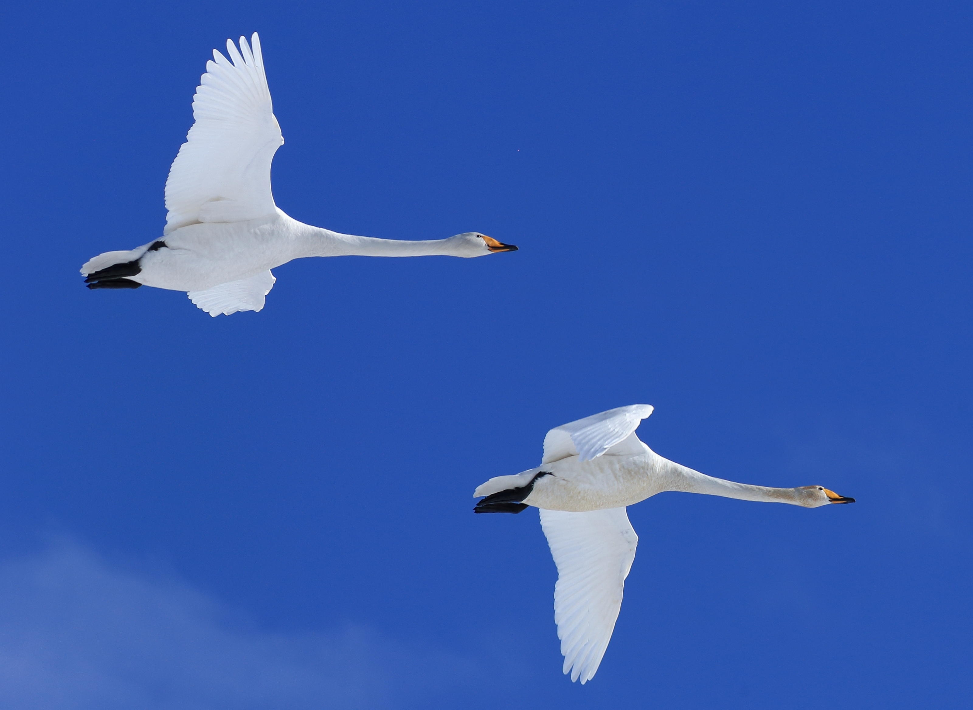 A pair of Whooper swans (Cygnus cygnus) in flight near the Oritkari harbour in Oulu.